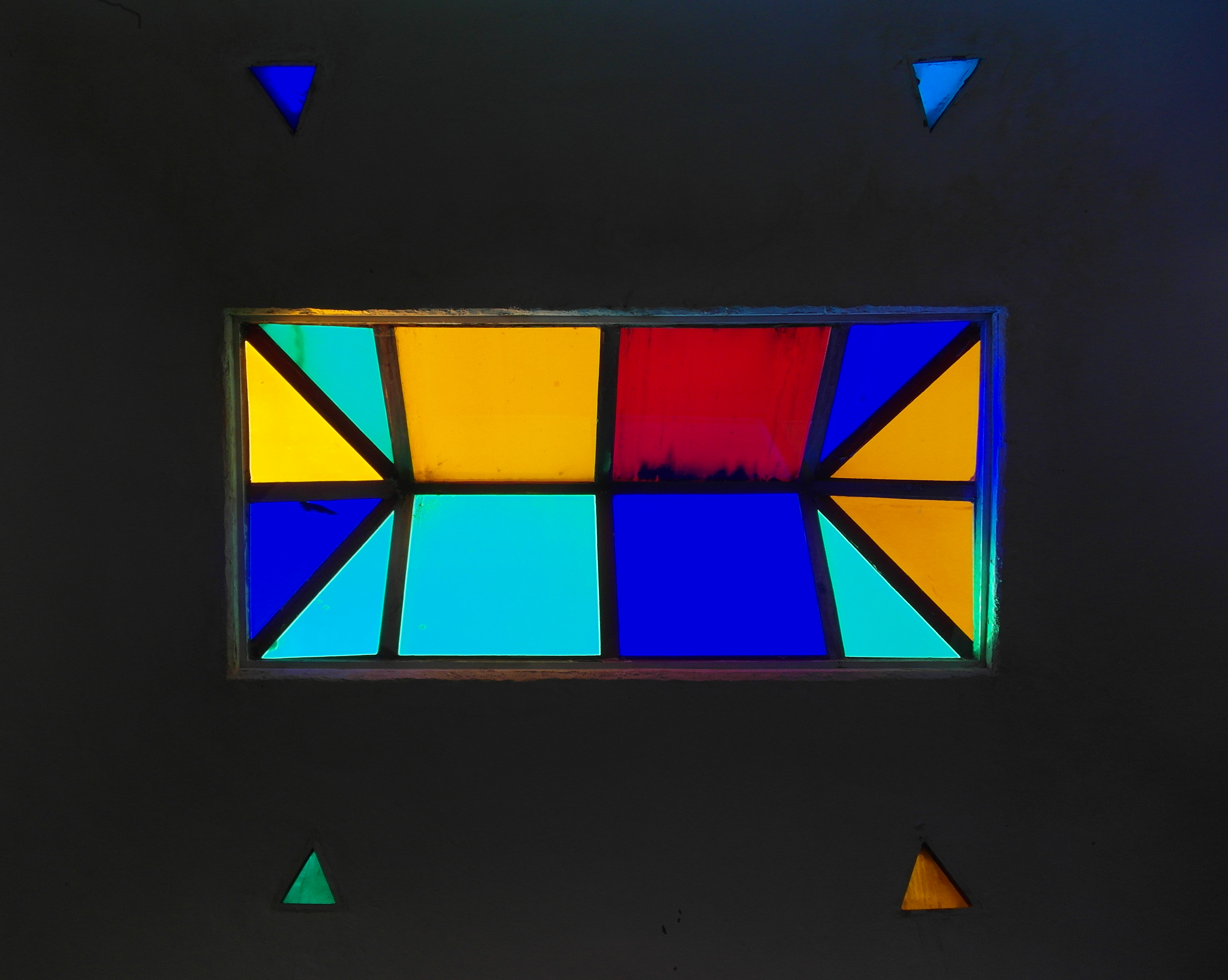 Staircase ceiling in the Rashid Diab Arts Centre in Khartoum-Riyad, Sudan.